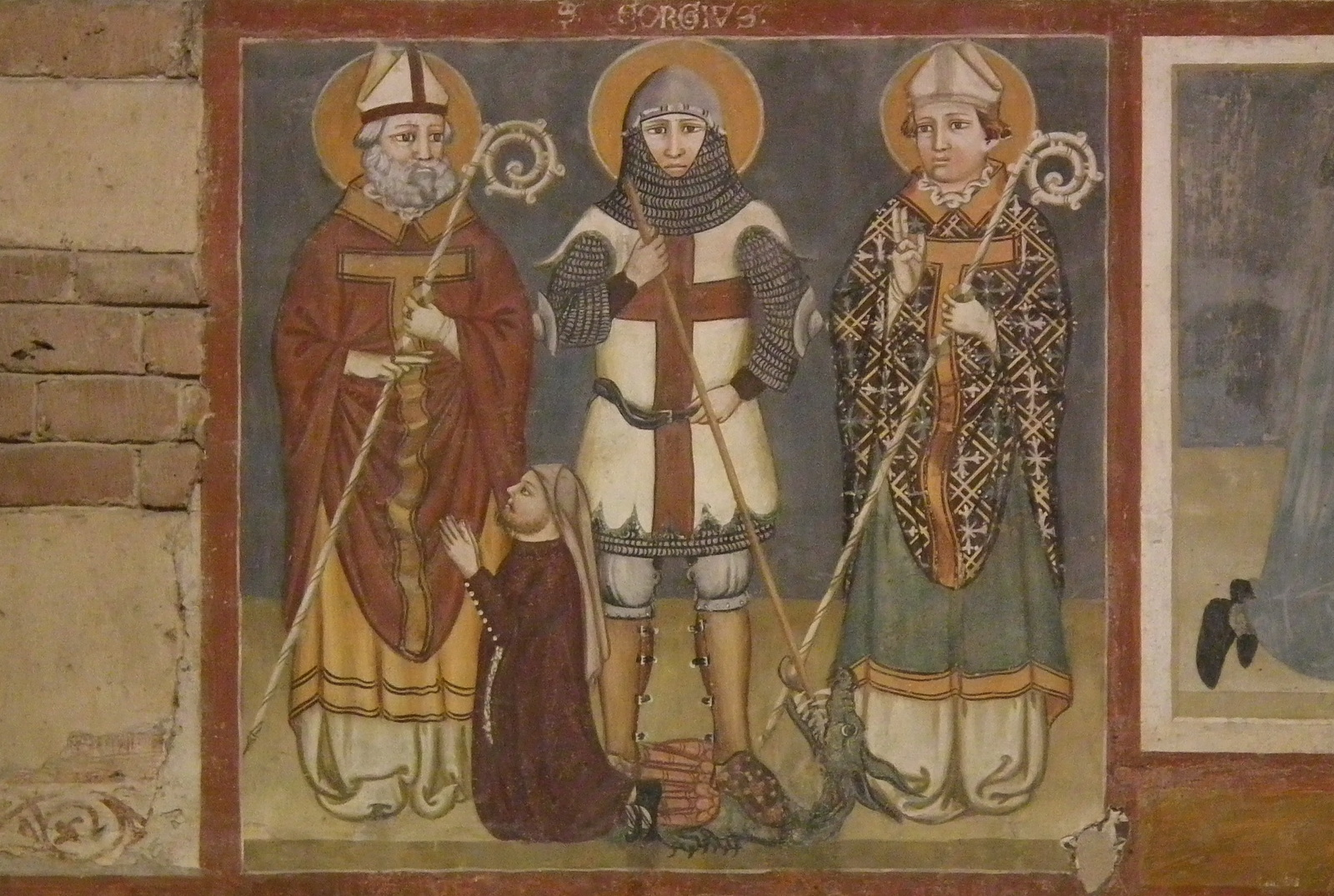 Basilica of San Zeno, Verona Native nameBasilica di San ZenoLocationVerona, Veneto, ItalyCoordinates45° 26′ 33″ N, 10° 58′ 45″ E Established12th/13th centuryWebsite control : Q1763642